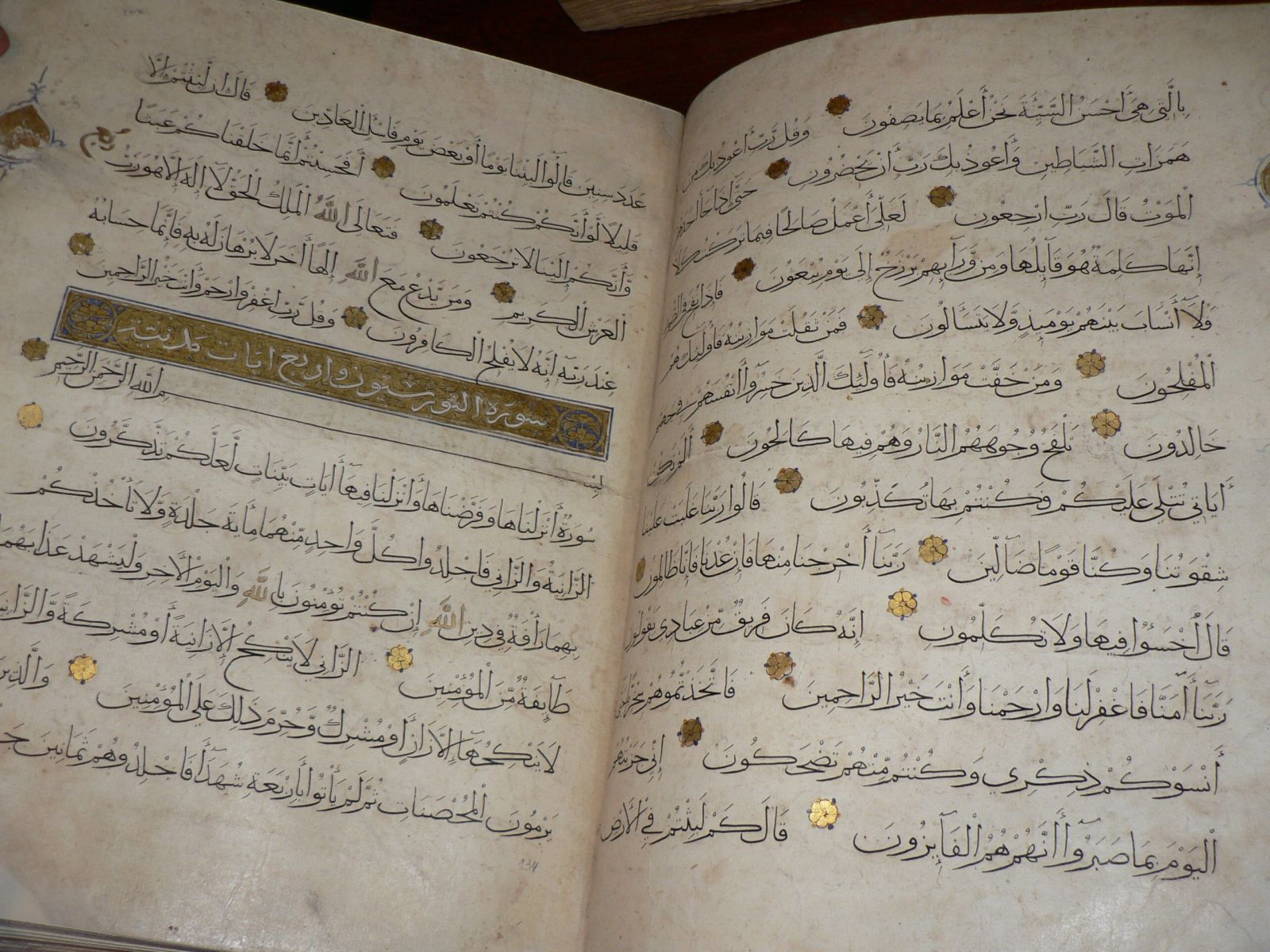 Golden Quran in the Chepintsi mosque.